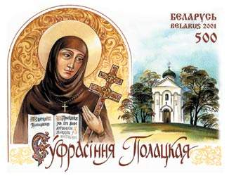 St. Eŭfrasińnia Połackaja stamp